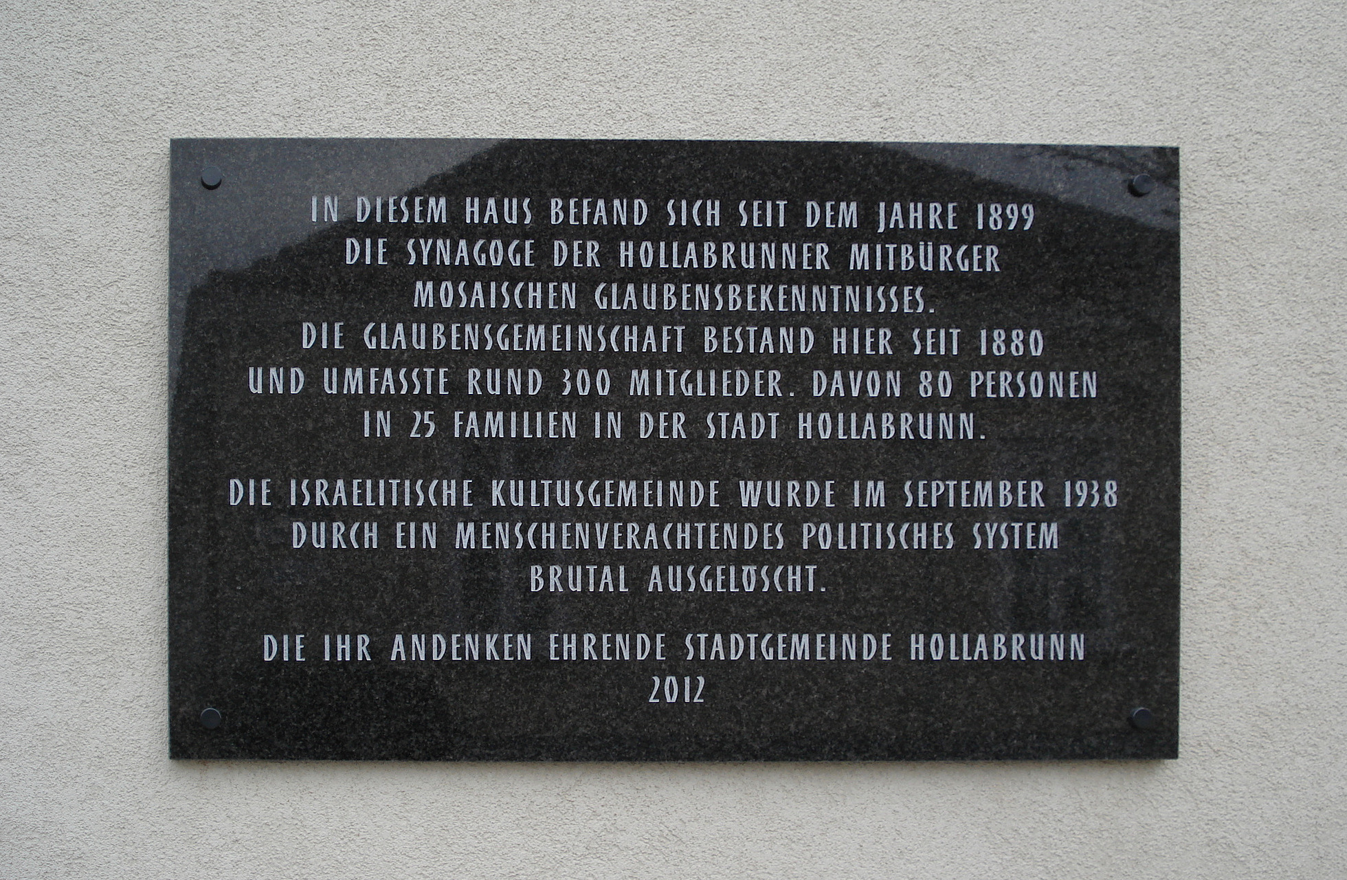 Commemorative plaque in Hollabrunn on the building Straußgasse/Winiwarterstraße for the former jewish synagogue.